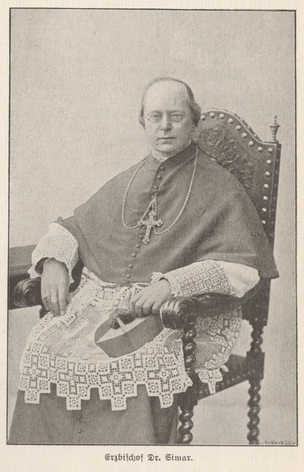 Archbishop Hubert Simar, Cologne